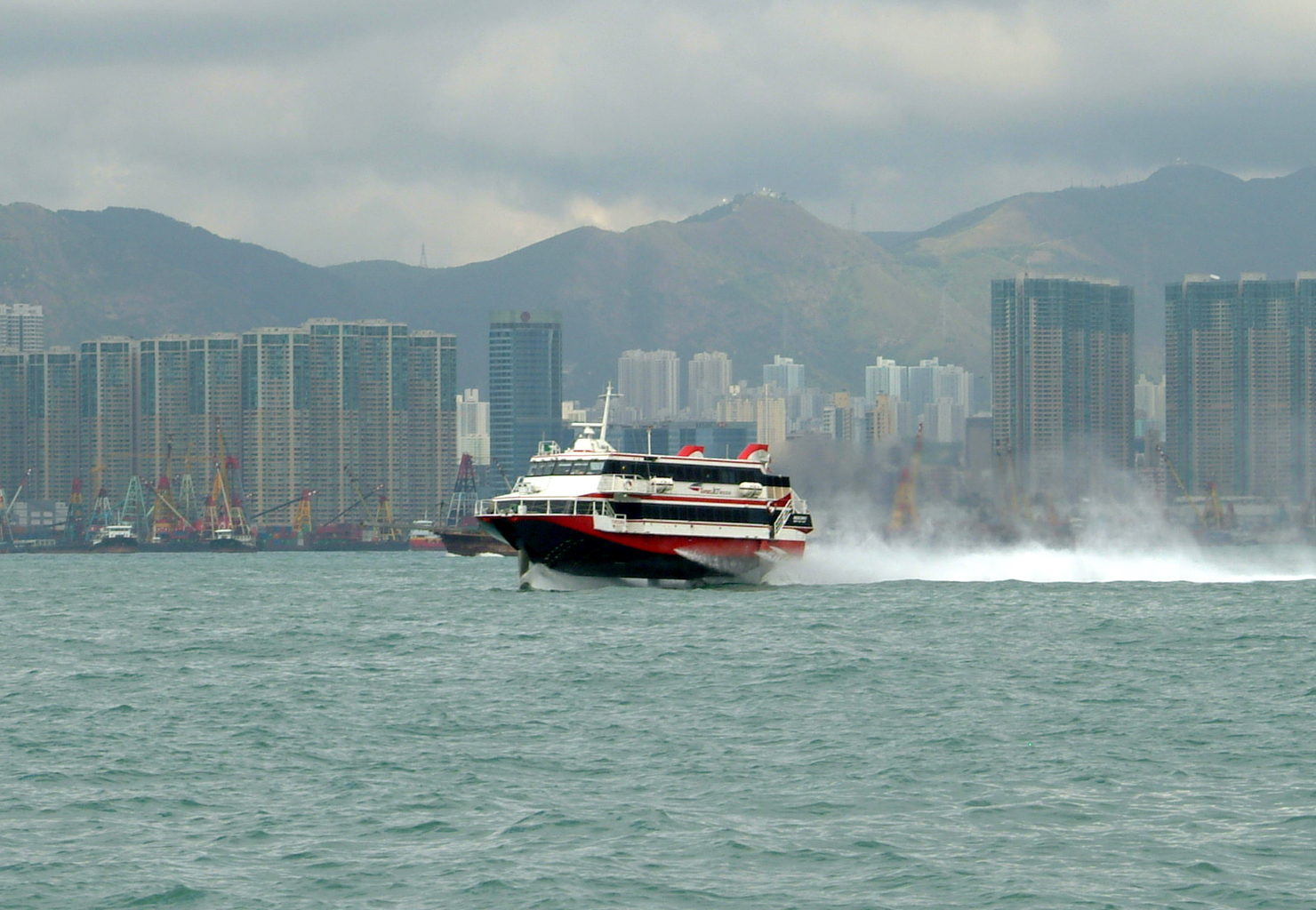 Speed boat on the route from Hong Kong